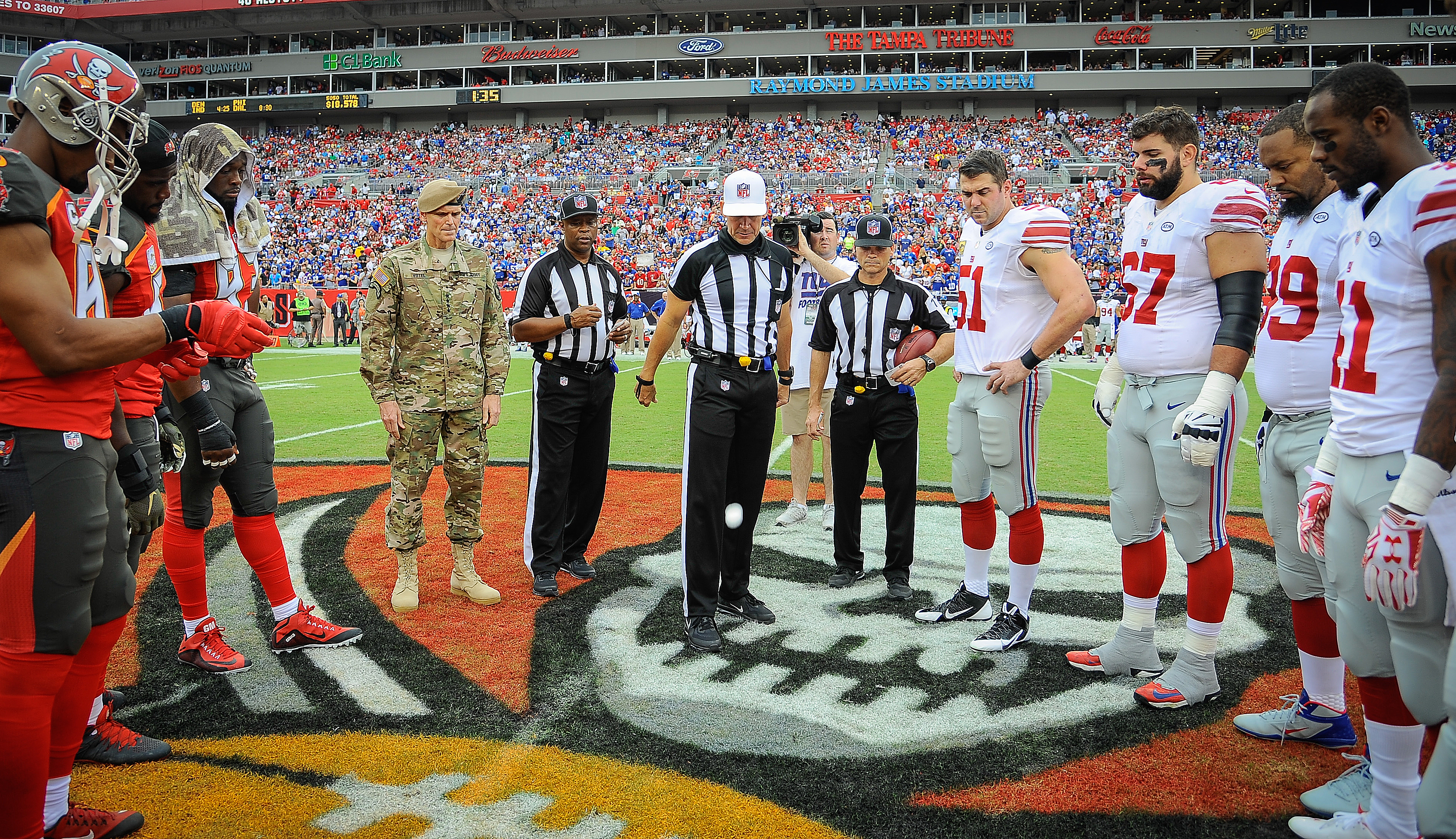 Gen. Joseph L. Votel, commander of U.S. Special Operations Command, stands centerfield during the coin toss of the Tampa Bay Buccaneers v. New York Giants National Football League military appreciation game at Raymond James Stadium in Tampa, Fla., Nov. 8, 2015. Military members from the Tampa Bay area were invited to a USO-sponsored pregame tailgate and given front row tickets to the game.